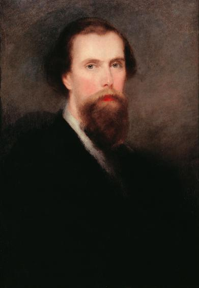 Luís de Miranda Pereira de Meneses (1820-1878), 2nd Viscount Menezes, a remarkable painter.